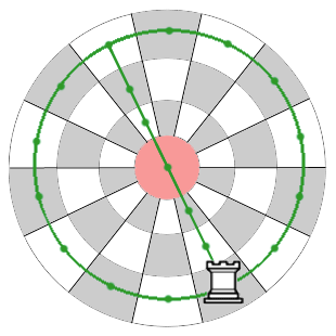 A diagram of the possible movements of a rook in diplomat chess